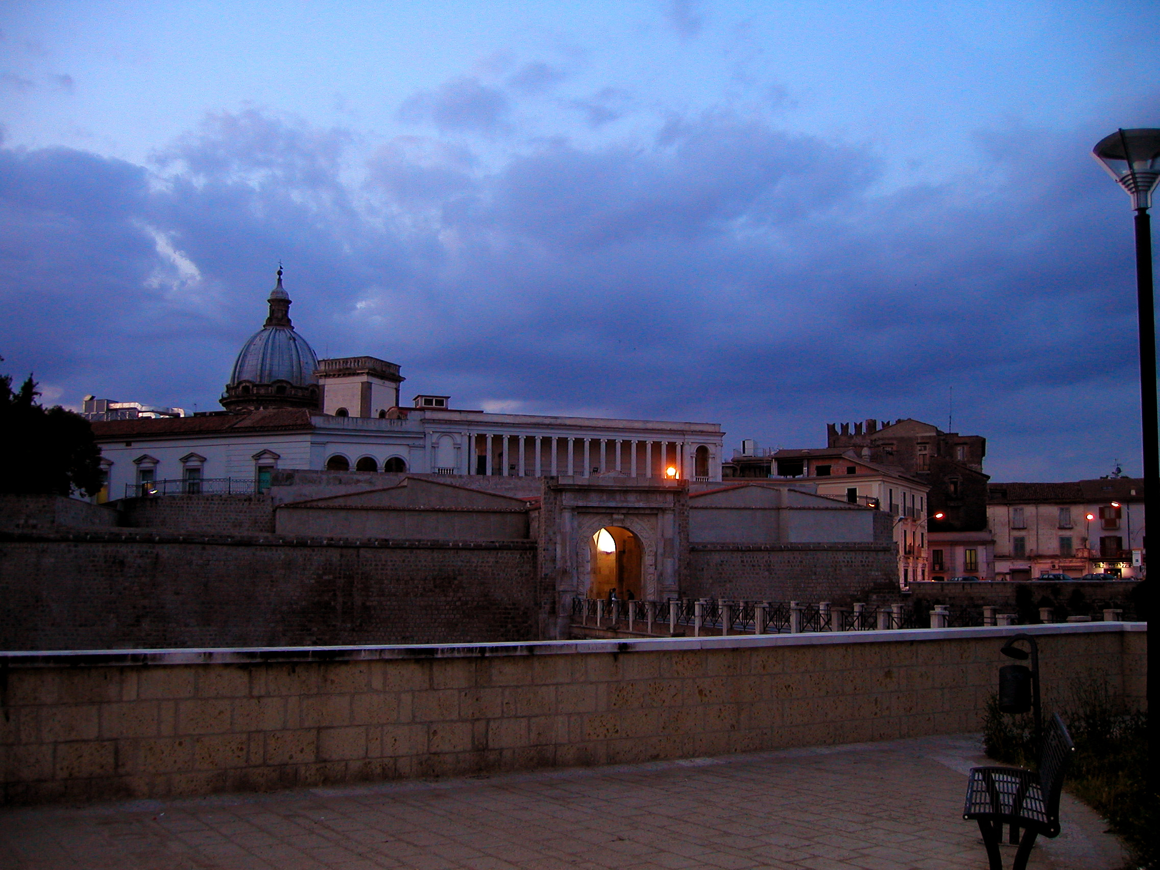 on a night stroll through Capua (circa 2002, although not much has changed)